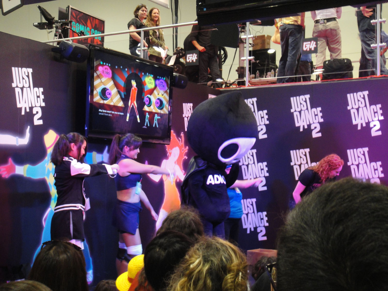 Comic-Con 2010 - a giant thing wants to Just Dance 2